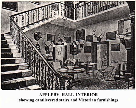 Photo of the Stair/Entrance Hall of Appleby Hall, Appleby Magna/Parva Leicestershire. Taken C.1910.